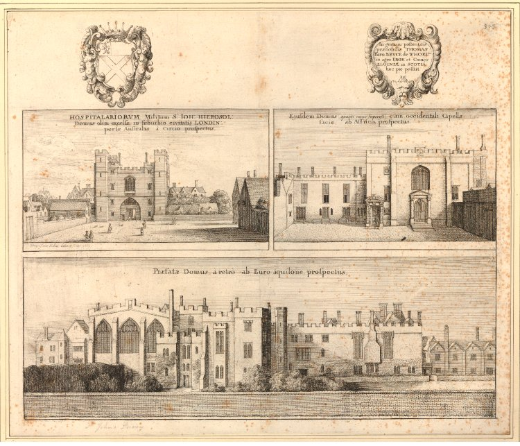 "Three views on one plate of the Priory of St John of Jerusalem, in Clerkenwell," etching, by the Czech-British artist and printmaker Wenceslaus Hollar. 325 mm x 380 mm. Courtesy of the British Museum, London.